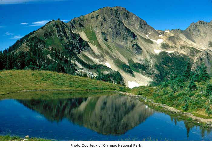 Mount Appleton's South Peak reflected in Oyster Lake, Olympic National Park